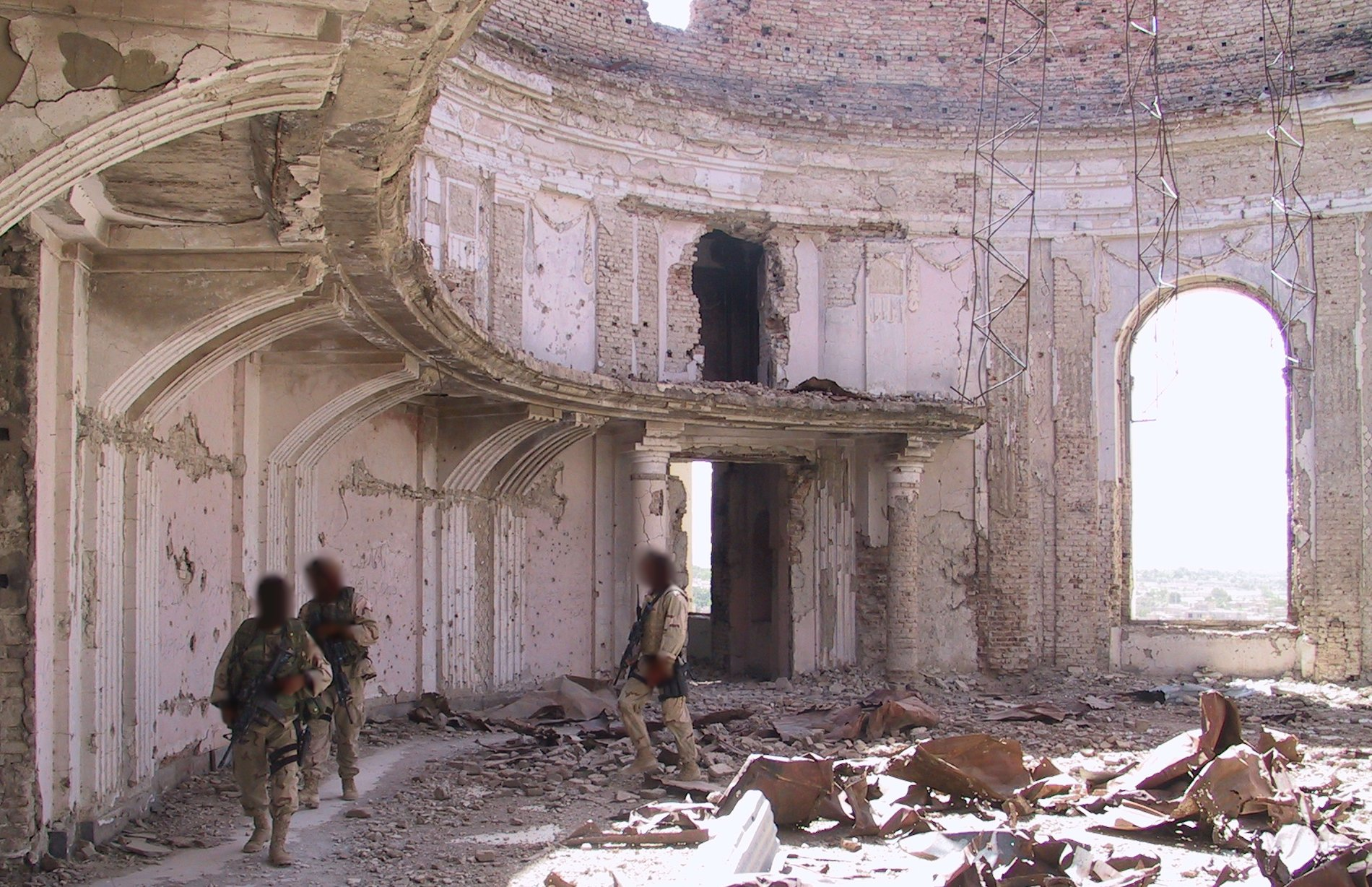 U.S. Commandos patrolling a heavily bombed out room in the Darul Aman Palace (Kabul, Afghanistan) in 2002.